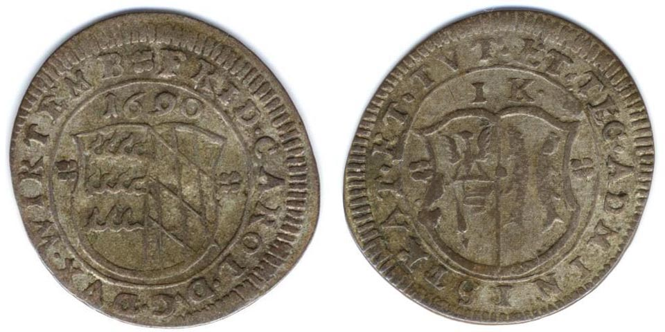 1690 silver Kreuzer from pre-unified German state of Wurttemberg